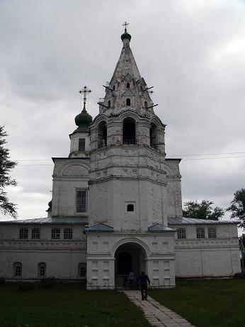 Tritse-Gledensky Monastery near Veliky Ustug. Trotsky Cathedral and the Monastery's Belltower